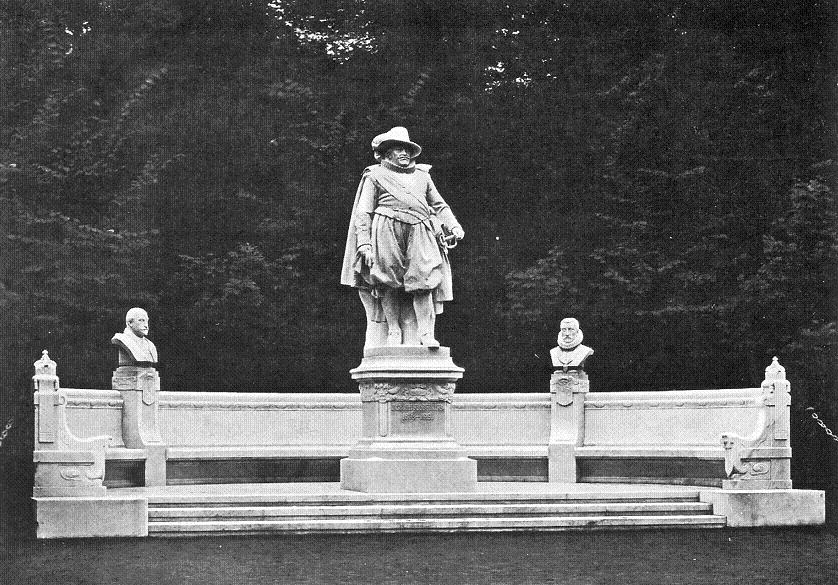 Monument group № 23 in the former Siegesallee in Berlin. The central monument commemorates Johann Sigismund, Elector of Brandenburg. The bust on the left commemorates Burgrave Fabian I von Dohna; the bust on the right, Privy Councilor and Governor Thomas von dem Knesebeck. Sculptor: Peter Breuer. Unveiled on 30 August 1901.